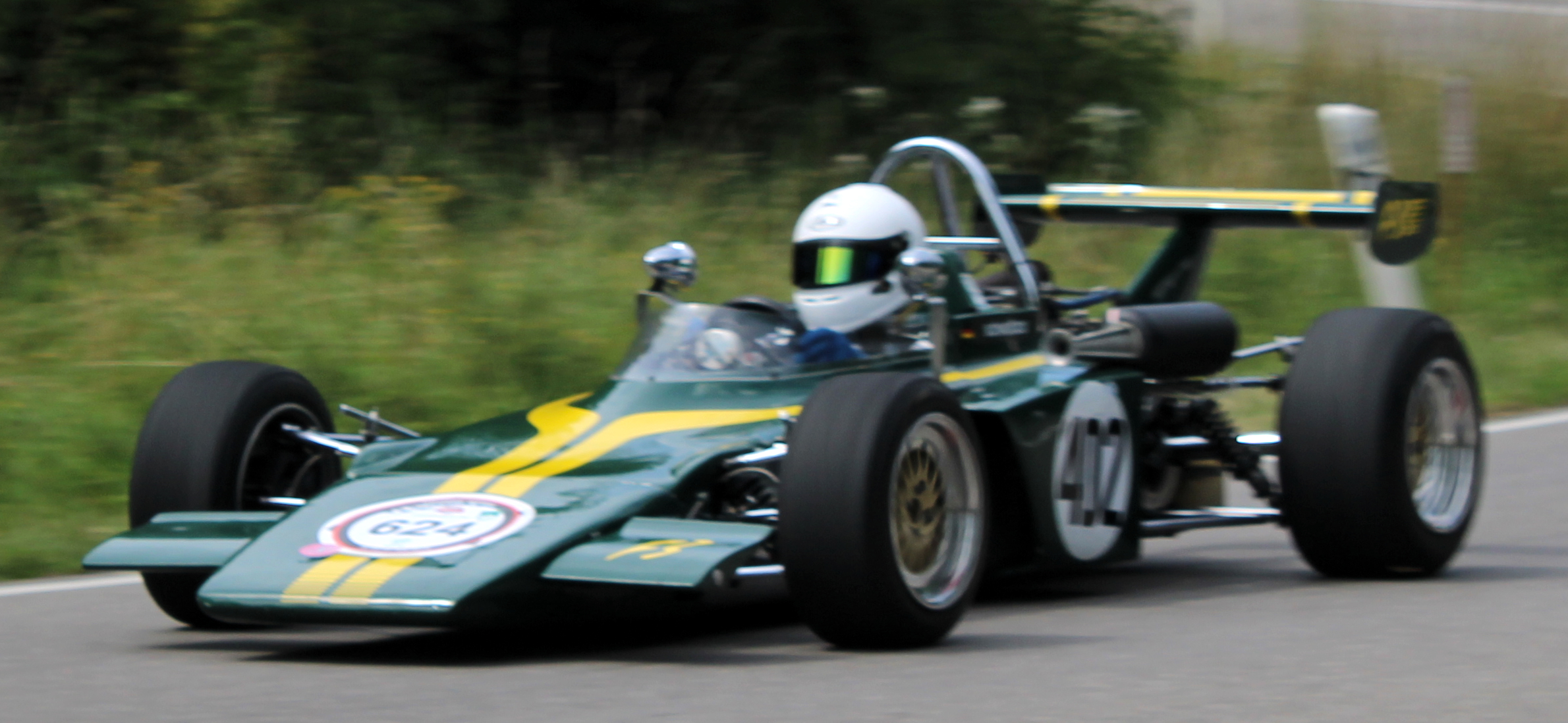 GRD Formel 3 at Solitude Revival 2019